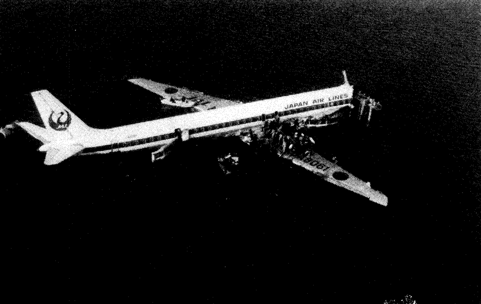 JAL Flight 350 wreckage